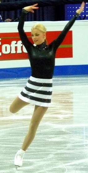 Kiira Korpi (FIN) at her short program at the World Championships in Figure Skating 2008 in Göteborg (SWE)